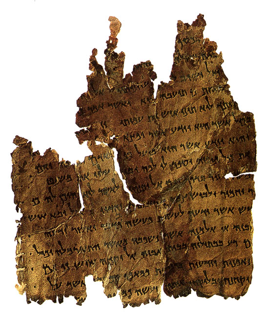 The Damascus Document Scroll 4Q271 (4QDf)